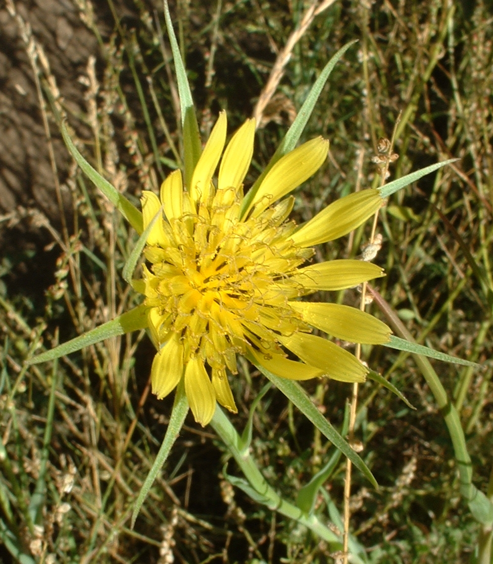 Western Salsify (Tragopogon dubius) photographed near Logan, Utah. Identified by: (a) comparison with numerous photographs on the web; authoritative sources show T. dubius with noticeable pointed bracts behind the flower, as here, whereas in the otherwise similar Tragopogon pratensis they are shorter or not visible. Less authoritative sources do not maintain this distinction and there is probably some confusion out there (also the two species hybridise); (b) USDA data on range of invasiveness of Tragopogon spp. - only T. dubius is listed for Utah.